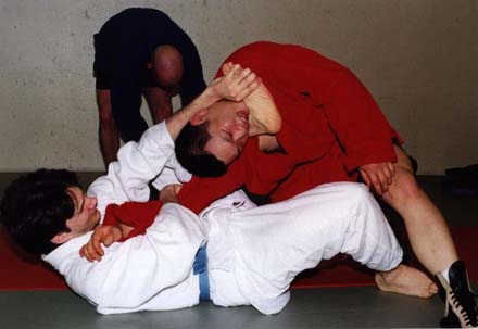 User-made image of gogoplata demonstration.